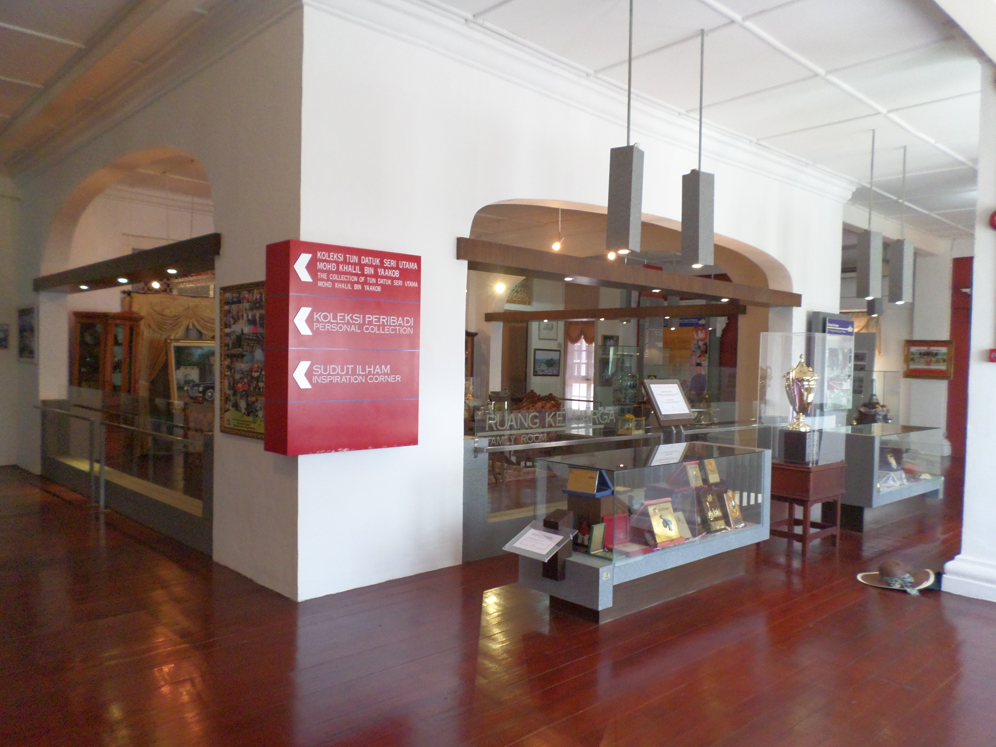 Governor's Museum, Central Malacca, Malacca, MalaysiaBahasa Melayu: Muzium Yang di-Pertua Negeri Melaka, Melaka Tengah, Melaka, Malaysia